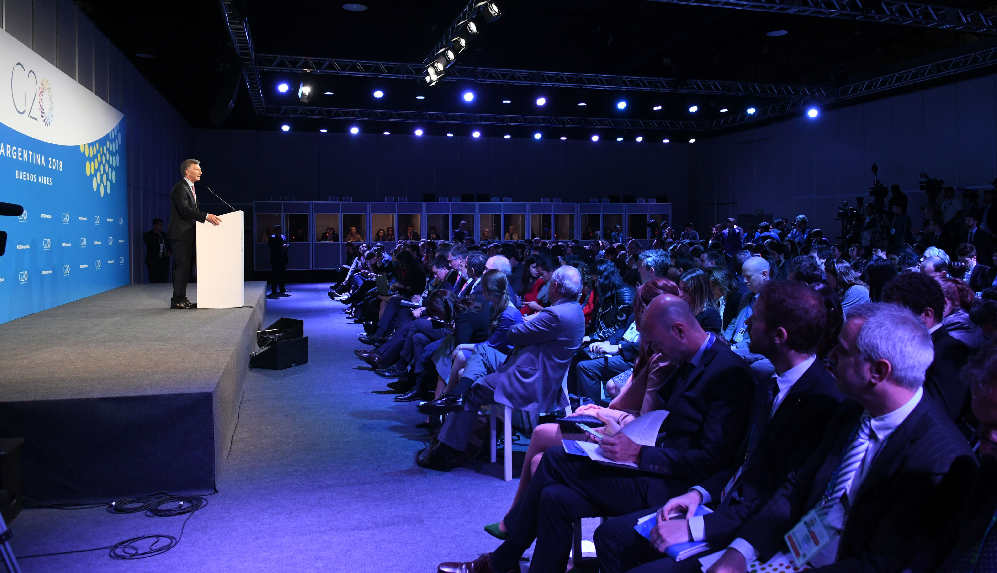 Press Conference - President Mauricio Macri - Day 2